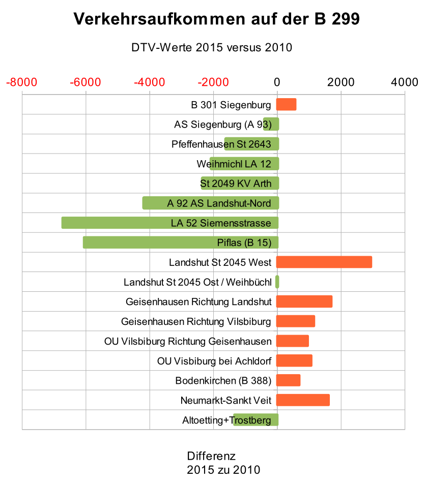 This graph shows the variation in traffic on German road B 299 in the area of Landshut counted on different measuring points in the years 2010 and 2015; the source of the measuring results is and